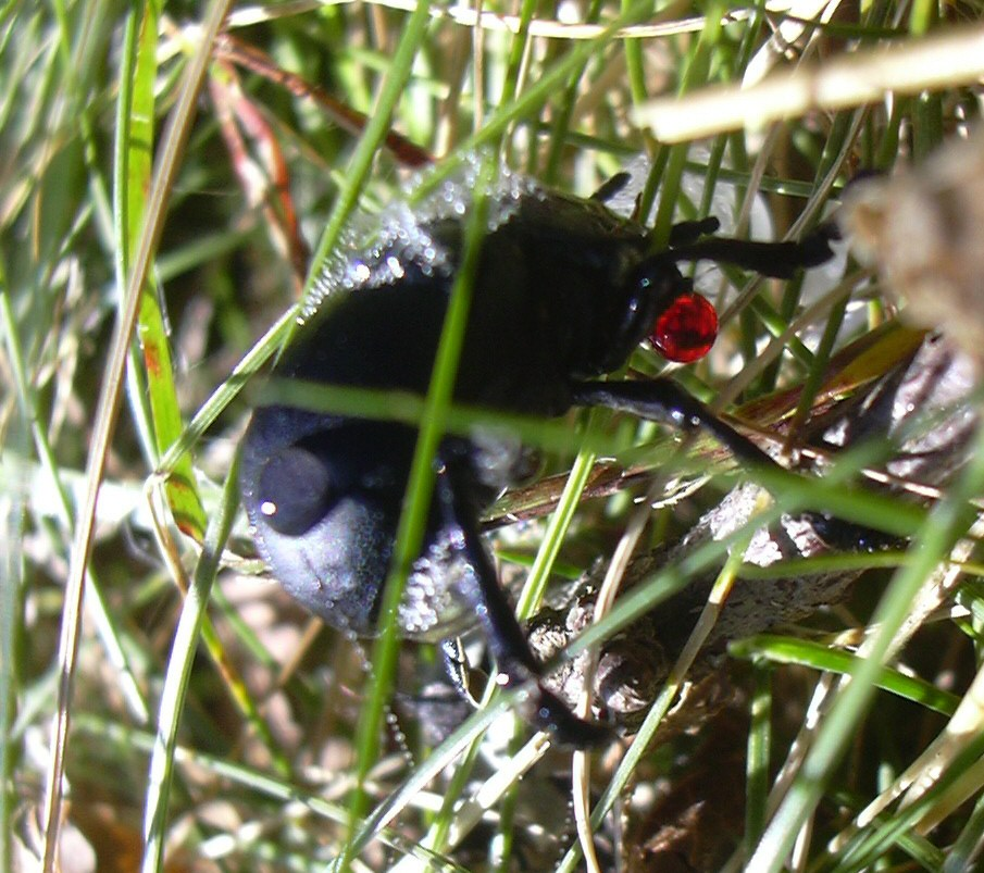 Timarcha tenebricosa [crache-sang]